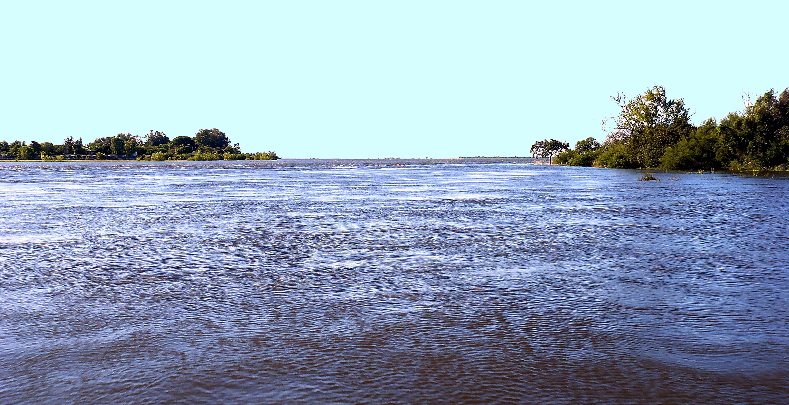 River San Javier, front to city of Helvecia